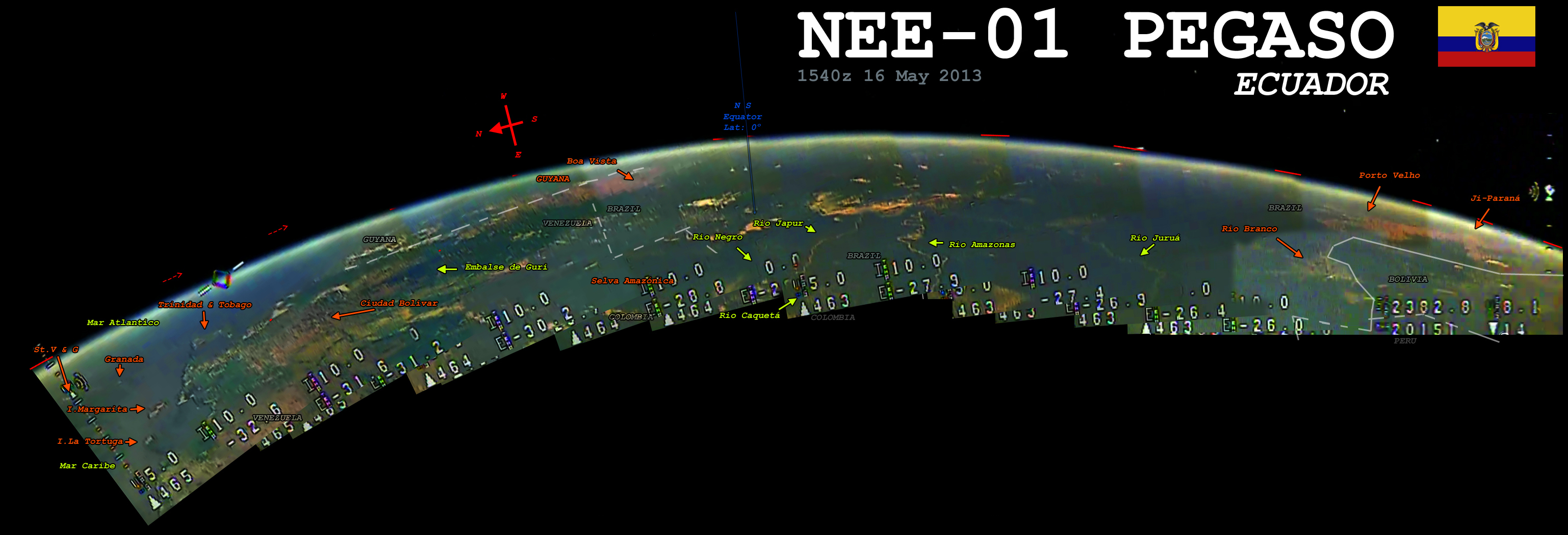 NEE-01 Pegaso (39151), first Ecuadorian satellite, first transmitted publicly on 16 May 2013. This is a mosaic of images from that video, with geographic locations shown around central South America.